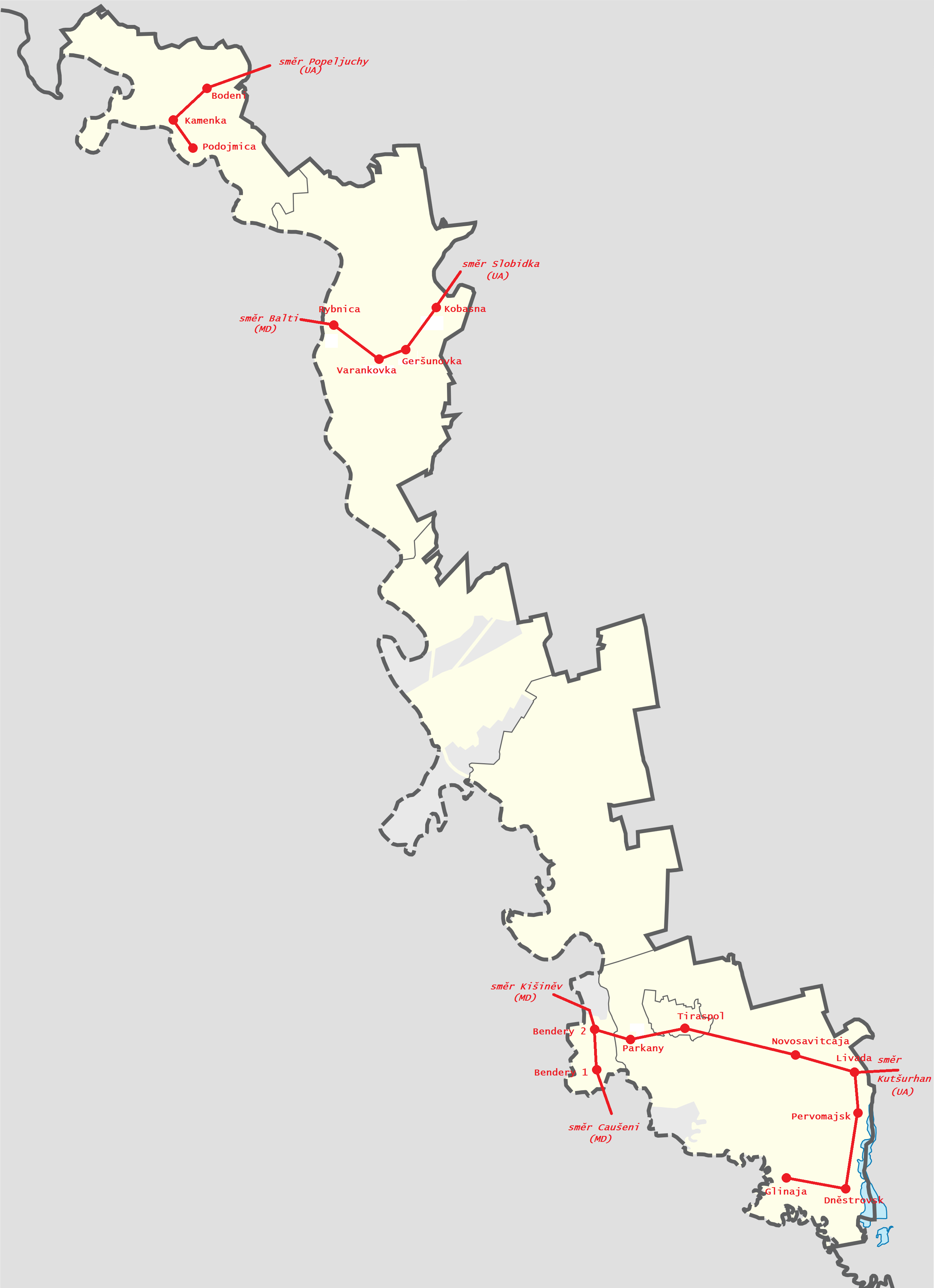 Map of PZD